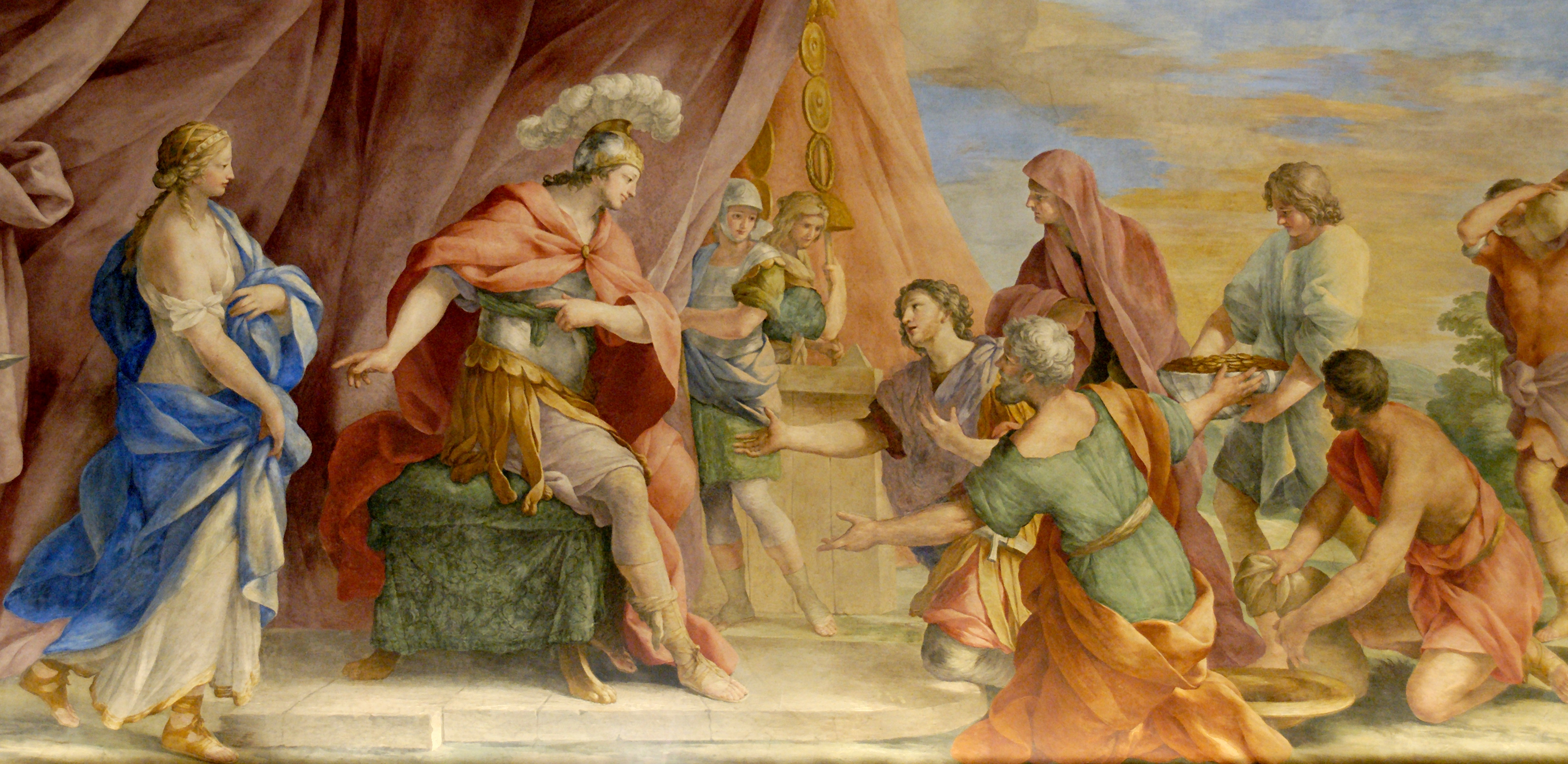 The Continence of Scipio. Fresco, 1655-1658.